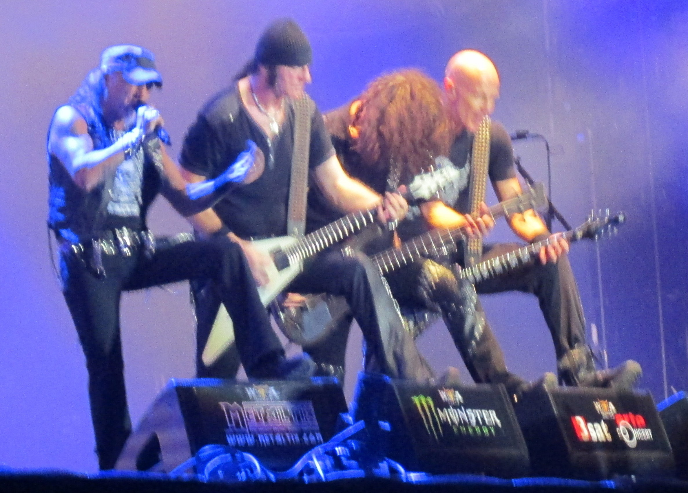 Accept at Wacken Open Air 2014